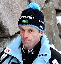 Matjaž Zupan (1968), ski jumper and ski jumping coach from Slovenia (cropped from File:Matjaž Zupan Oslo 2011 (team, normal hill) 2.jpg